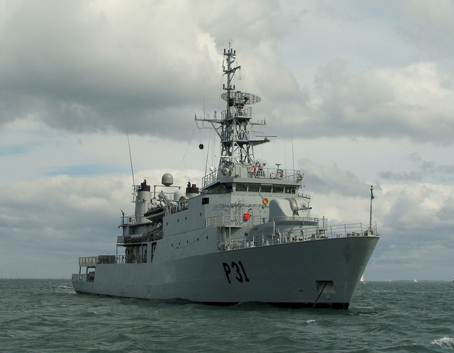 LÉ 'Eithne', Tall Ships Belfast 2009 LÉ 'Eithne' was one of two naval vessels taking part of the 'Parade of Sail' to mark the end of the Tall Ships event in Belfast. After moving out from Belfast Lough the ship anchored just off Grey Point and waited for the parade to pass. LÉ 'Eithne' is an Eithne class ship in the Irish Naval Service. The only ship in the Irish Naval Service fleet to have a flight deck, Eithne was also the last ship to have been built in the Republic of Ireland, constructed at Verholme Dockyard at Rushbrook, Cork and completed in 1984.